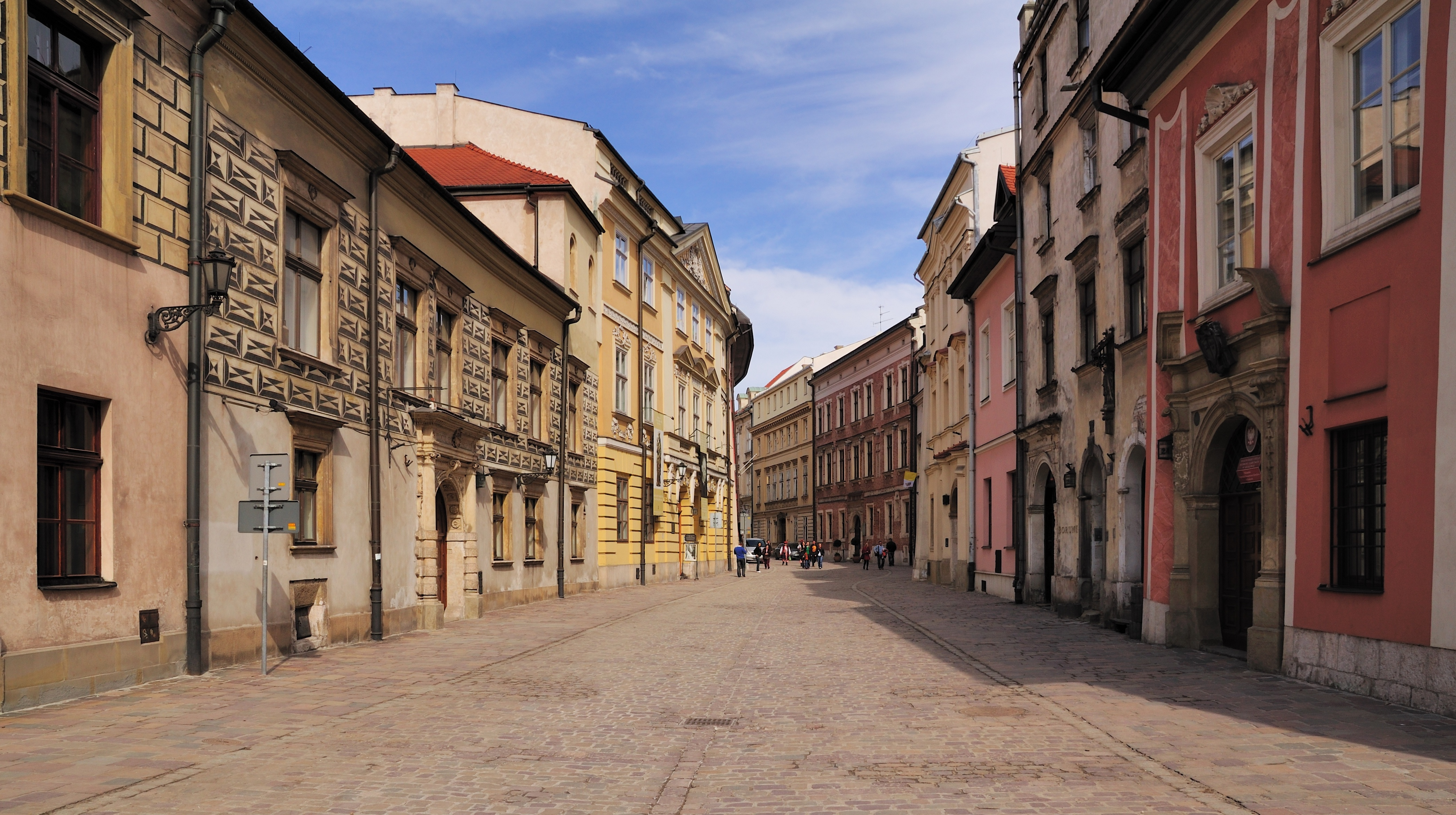 Kanonicza Street, Kraków (view from Wawel)